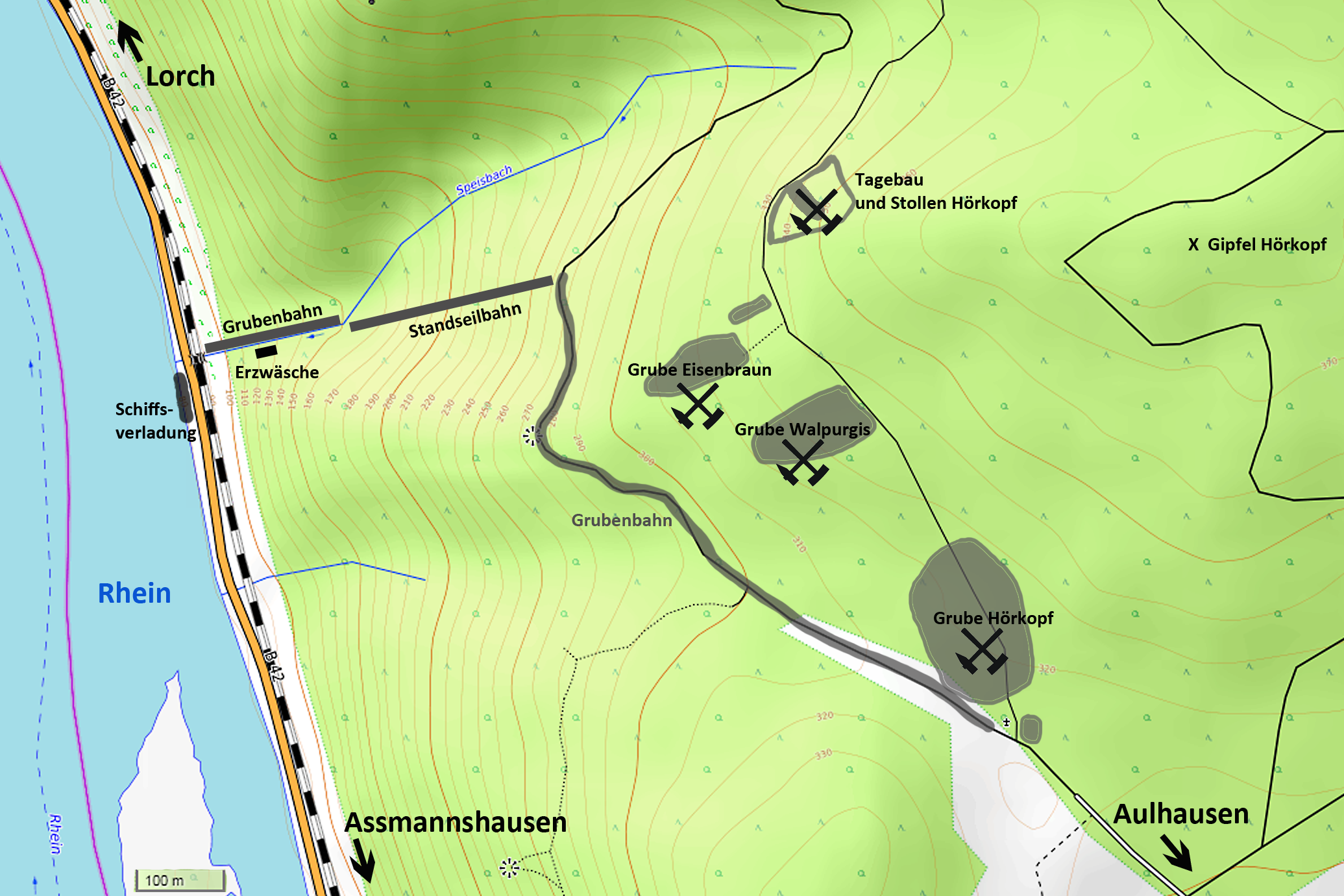 Hörkopf mine and consolidated mines near Assmannshausen, east of river Rhine